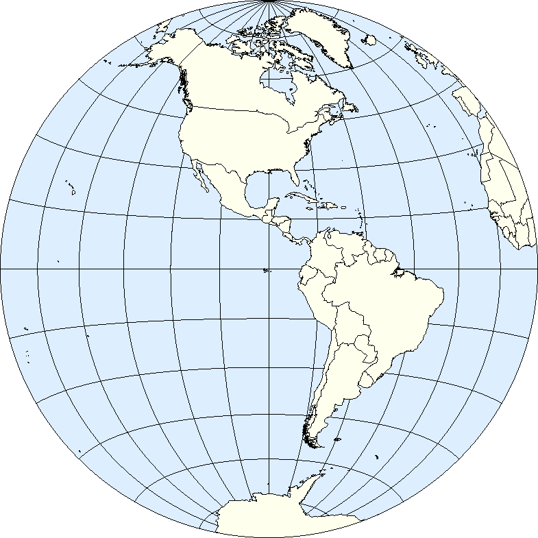 Western Hemisphere of Earth (Lambert Azimuthal projection)